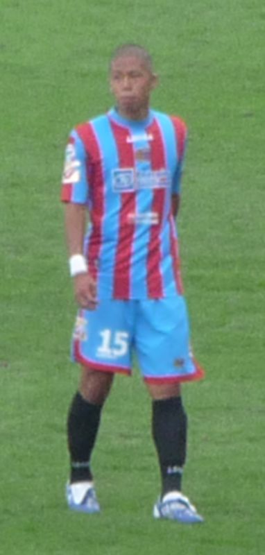 Udinese - Catania 4-2 13/09/2009